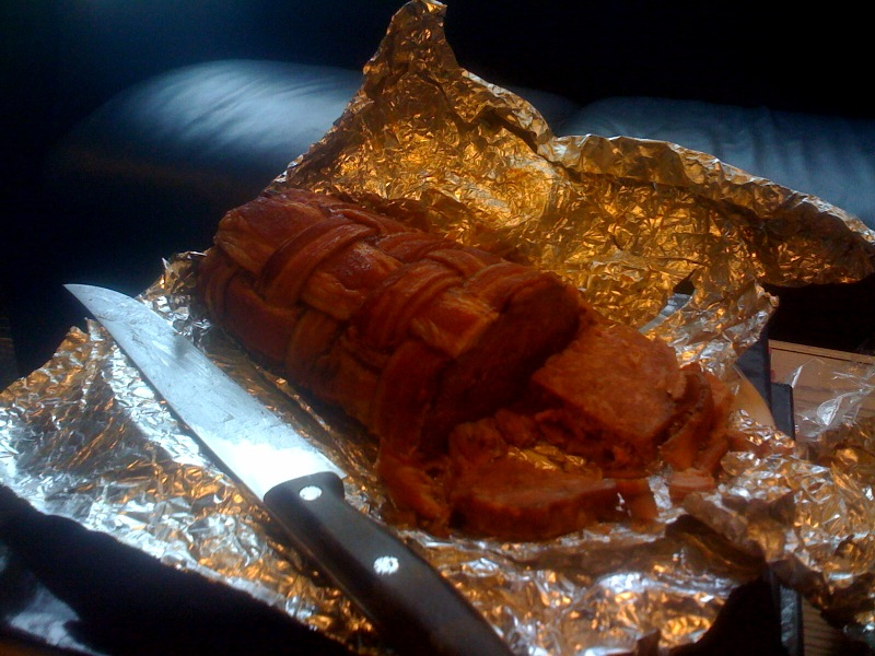 Our colleague Jim at Quirks and Quarks made a Bacon Explosion